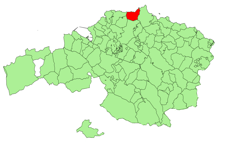 Bakio municipality in the province of Biscay